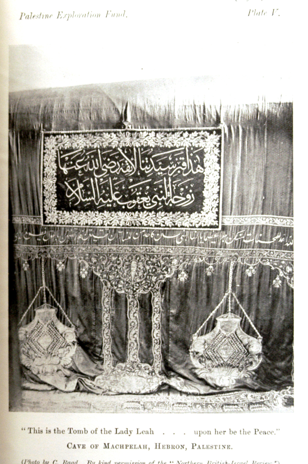 "This is the Tomb of the Lady Leah ... upon her be the Peace." Cave of Machpelah, Hebron, Palestine. The actual Arabic text on the sign says: هذا قبر سيّدتنا لائقة رضي الله عنها زوجة النبي يعقوب عليه السلام — "This is the tomb of our lady Lāʼiqah, may God be pleased with her, the wife of the prophet Jacob, peace be upon him." Lāʼiqah is an Arabic word meaning 'worthy'; the actual Arabic form of Leah's name is Liyā or Liʼah.